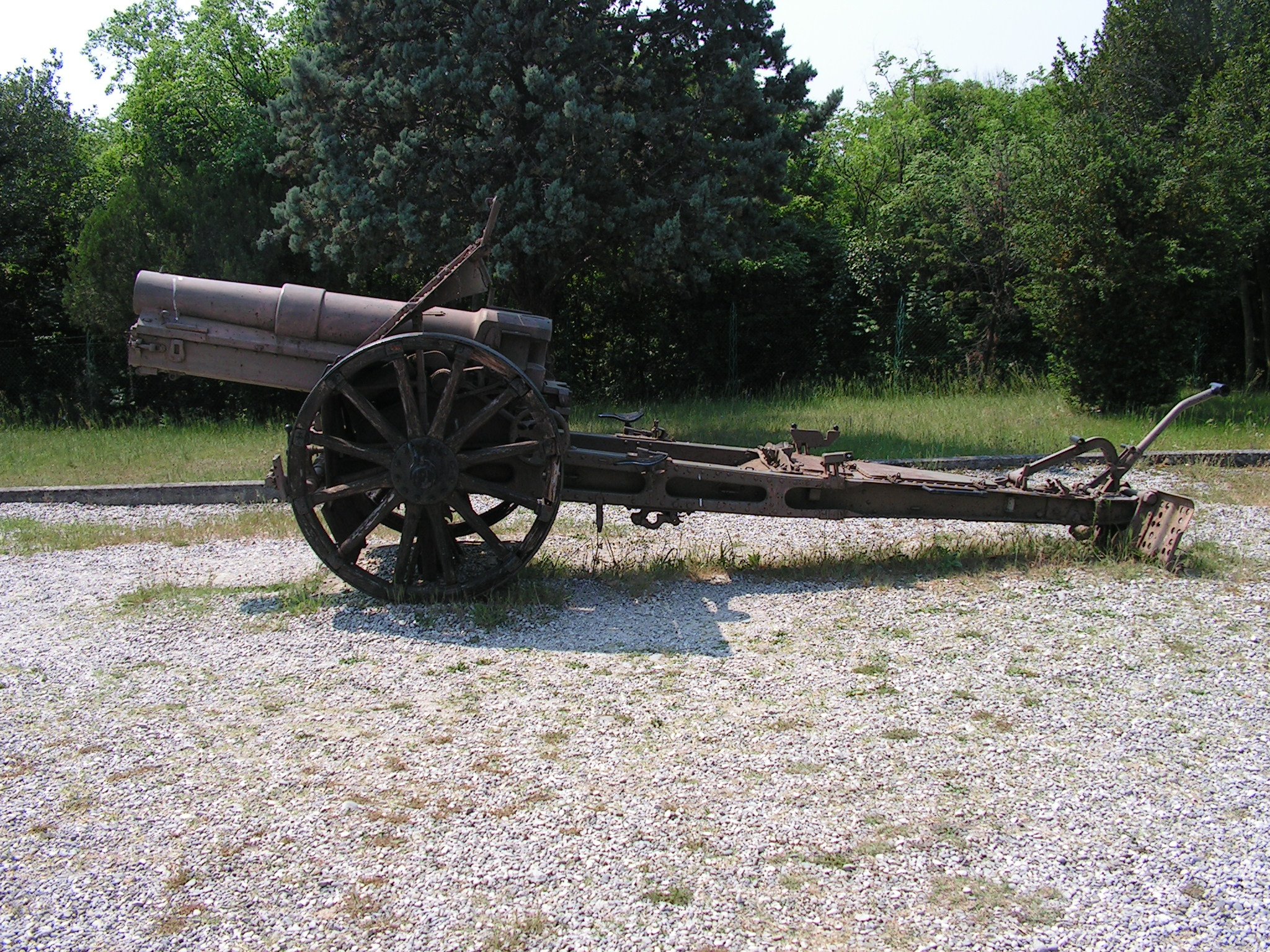 Italian howitzer 149/13 (originally Austrian 15 cm schwere Feldhaubitze M 14/16)